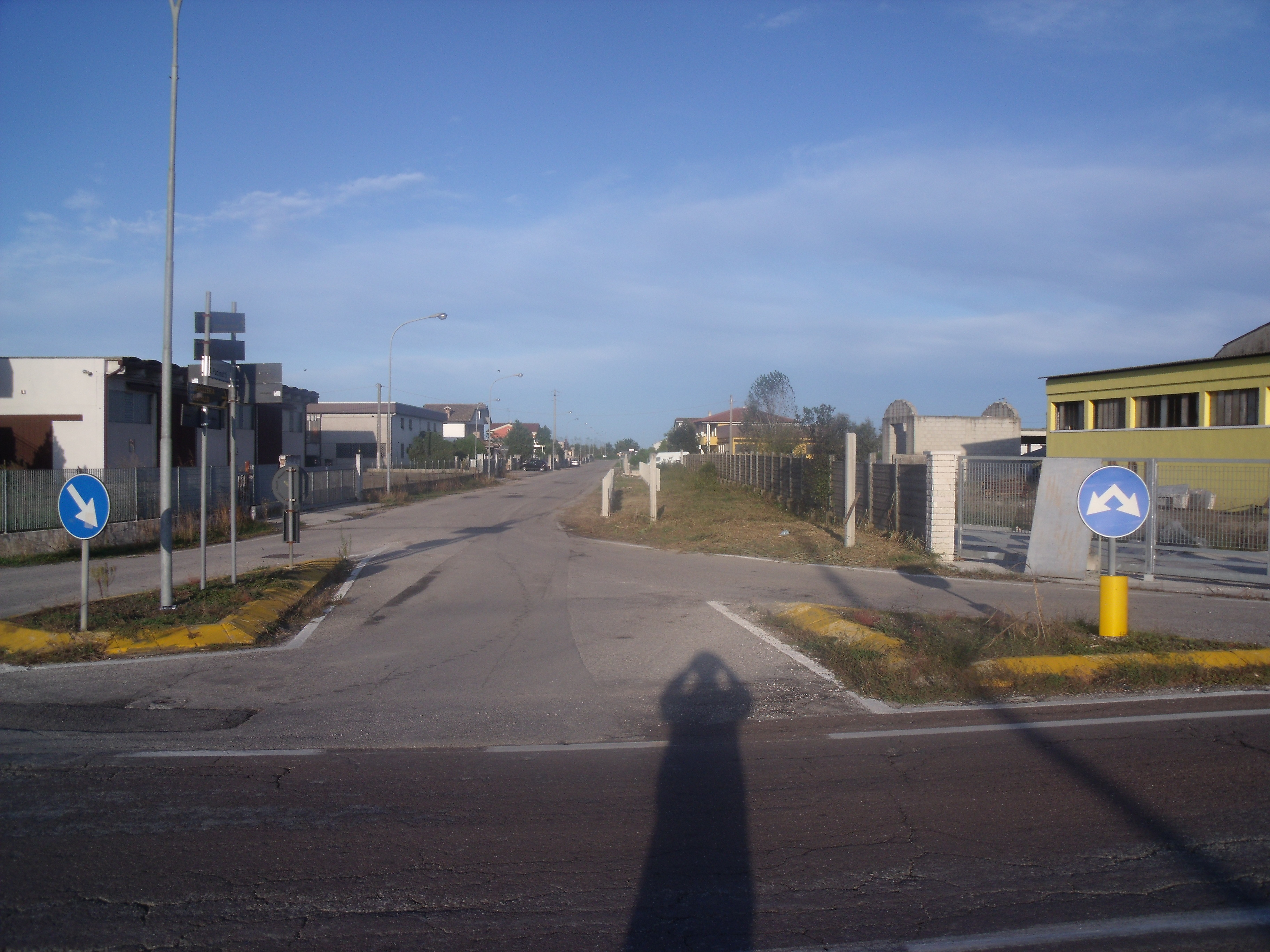 A view of entrance area craft